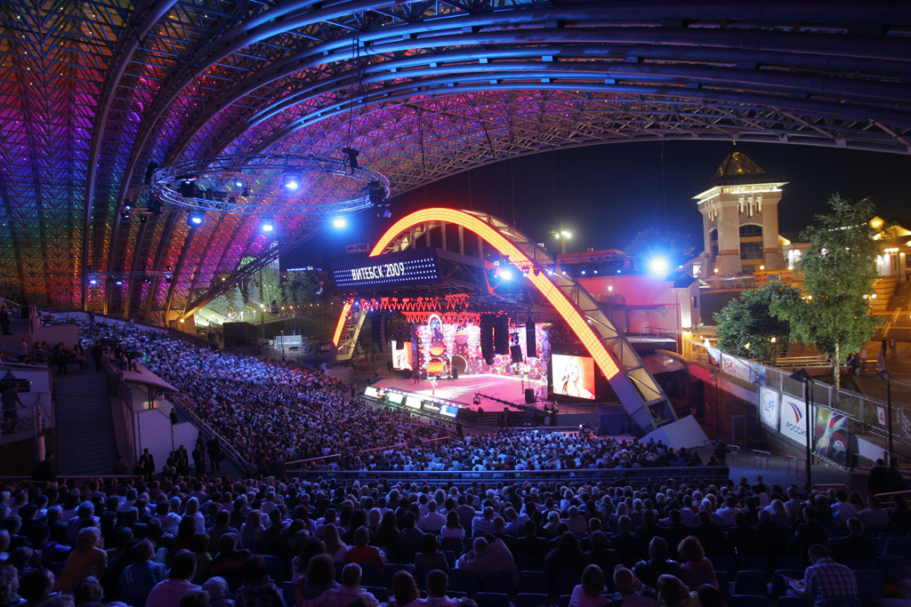 “18th International Art Festival Slavyansky Bazar opens in Vitebsk”. The 18th International Art Festival Slavyansky Bazar opening ceremony in Vitebsk, Belarus.